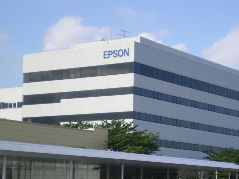 SEIKO EPSON Corp. Hino Office(Hino-shi, Tokyo, Japan) The head office of ORIENT WATCH Co.,Ltd. existed in this place once.